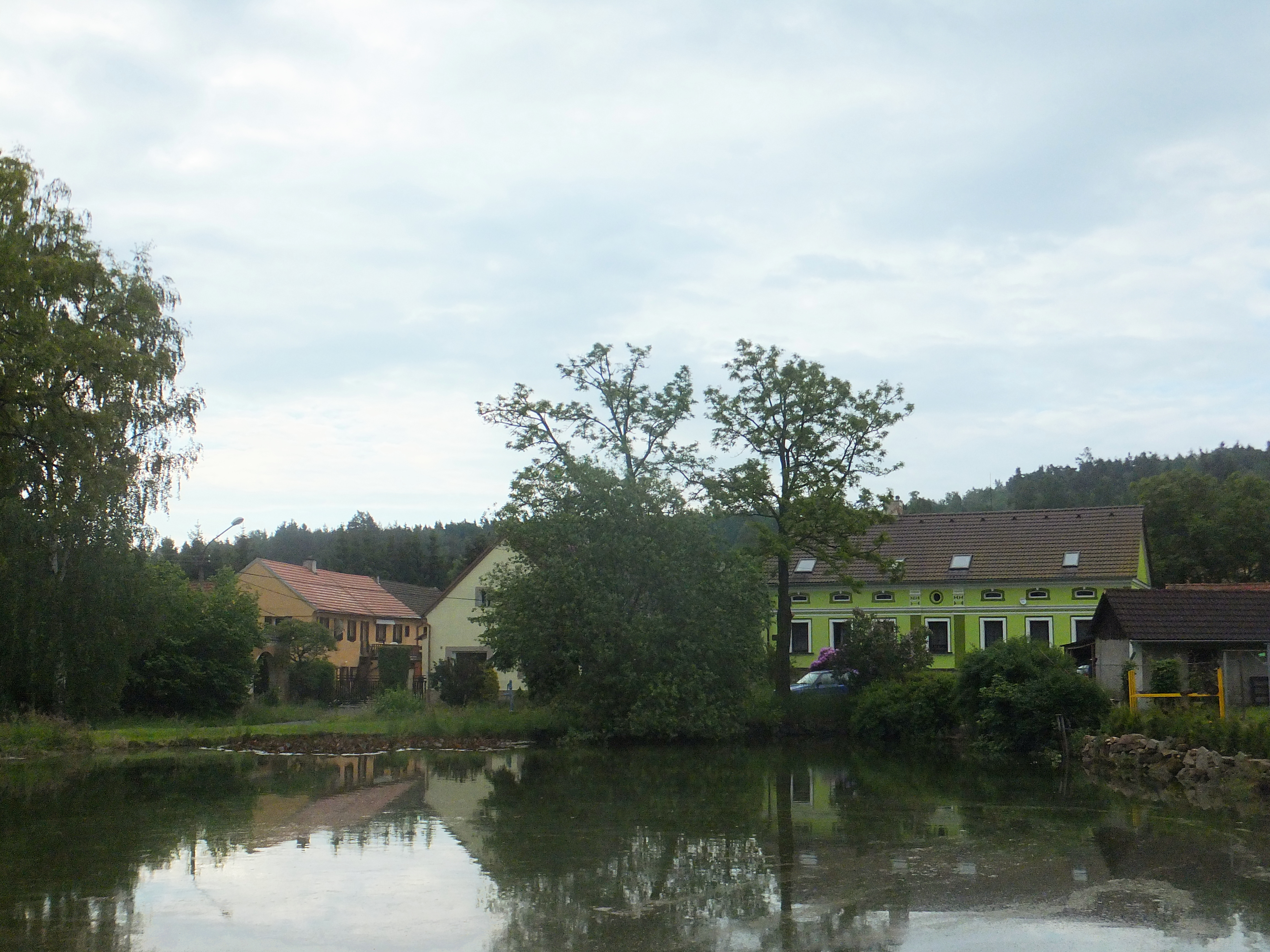 The south-eastern side of the square in Milevo